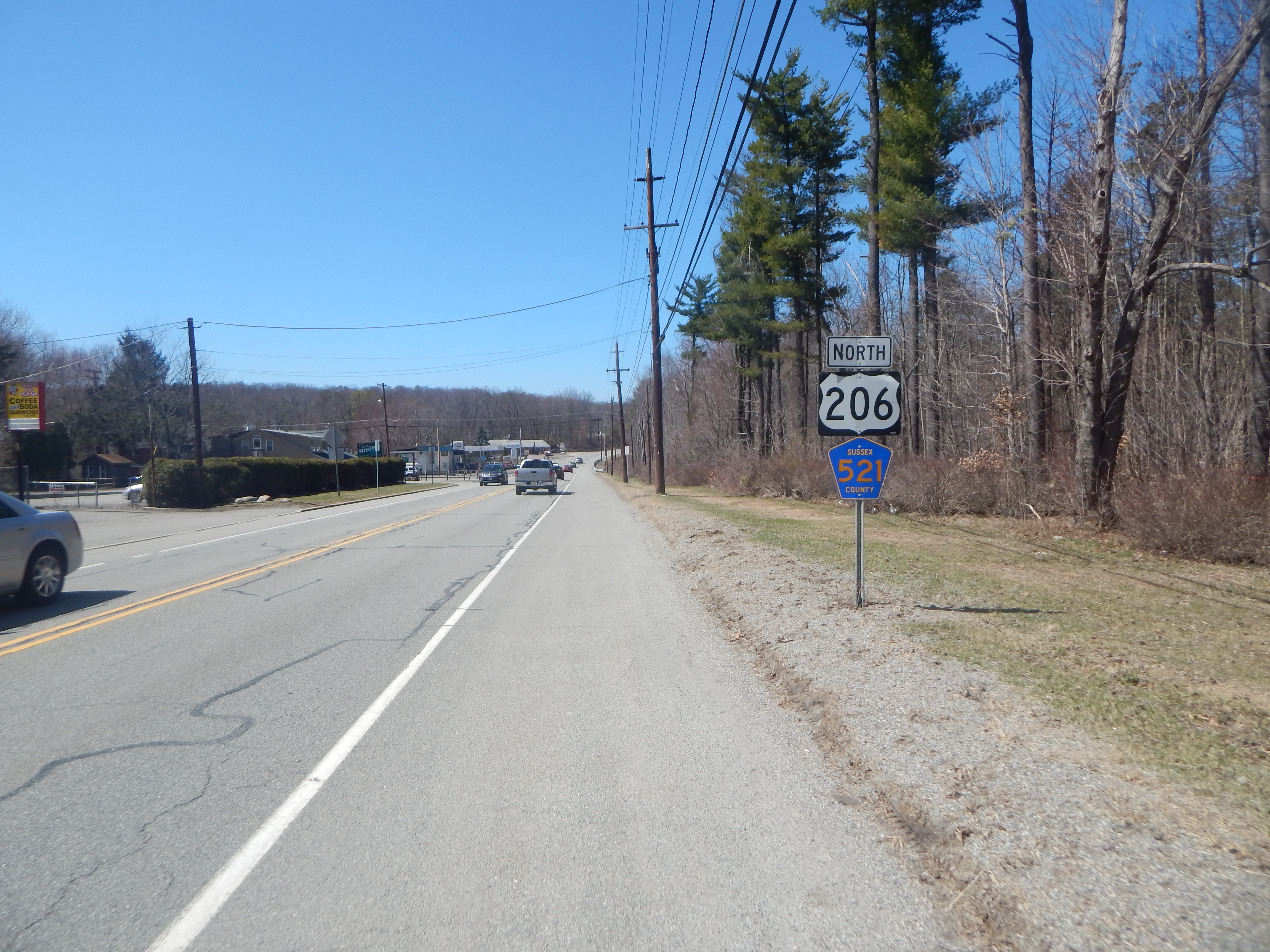 U.S. Route 206 and CR 521 in Sandyston Township, New Jersey.